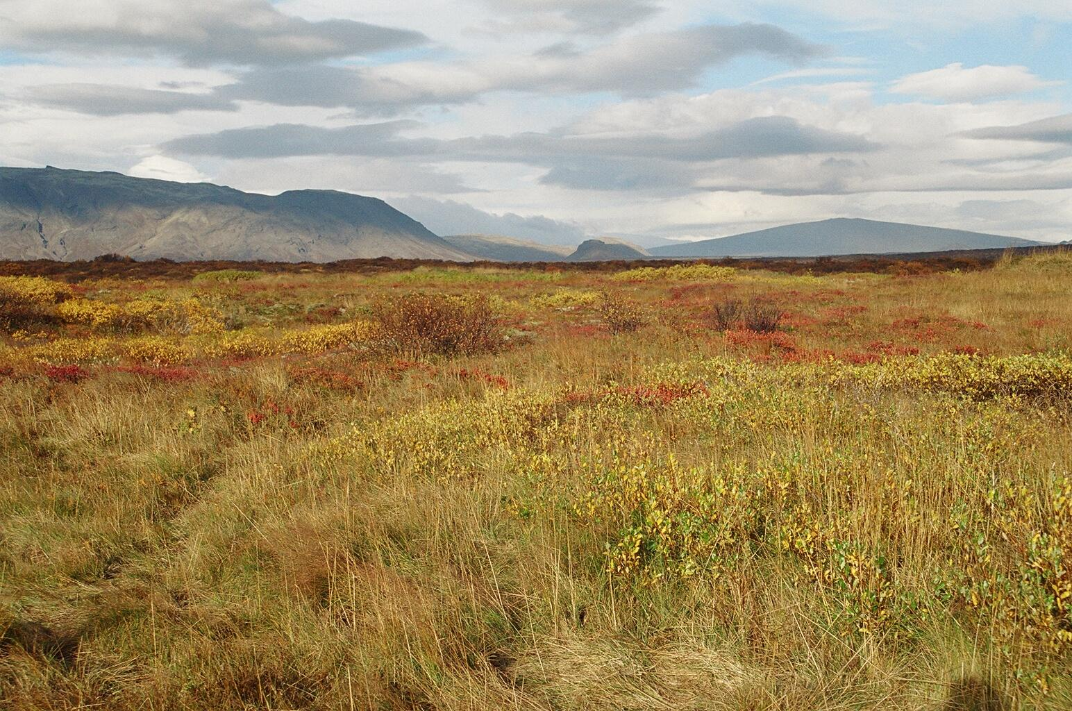 Thingvellir in autumn 2004, GNU-FDL I took the photo by my-self in october 2004, no other copyrights involved.